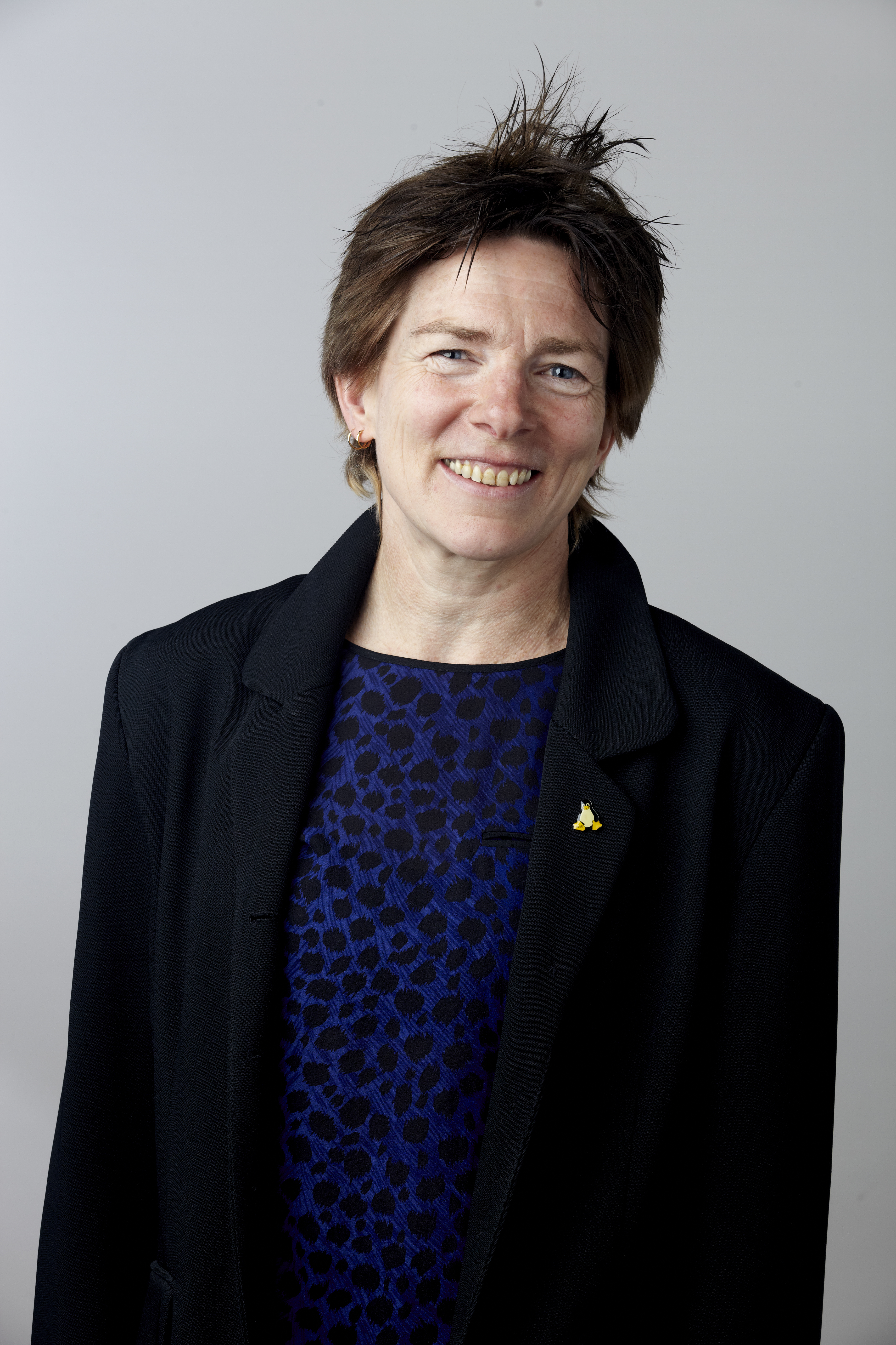 Professor Jenny Nelson FRS, Royal Society Fellow elected 2014 Attribution: The Royal Society